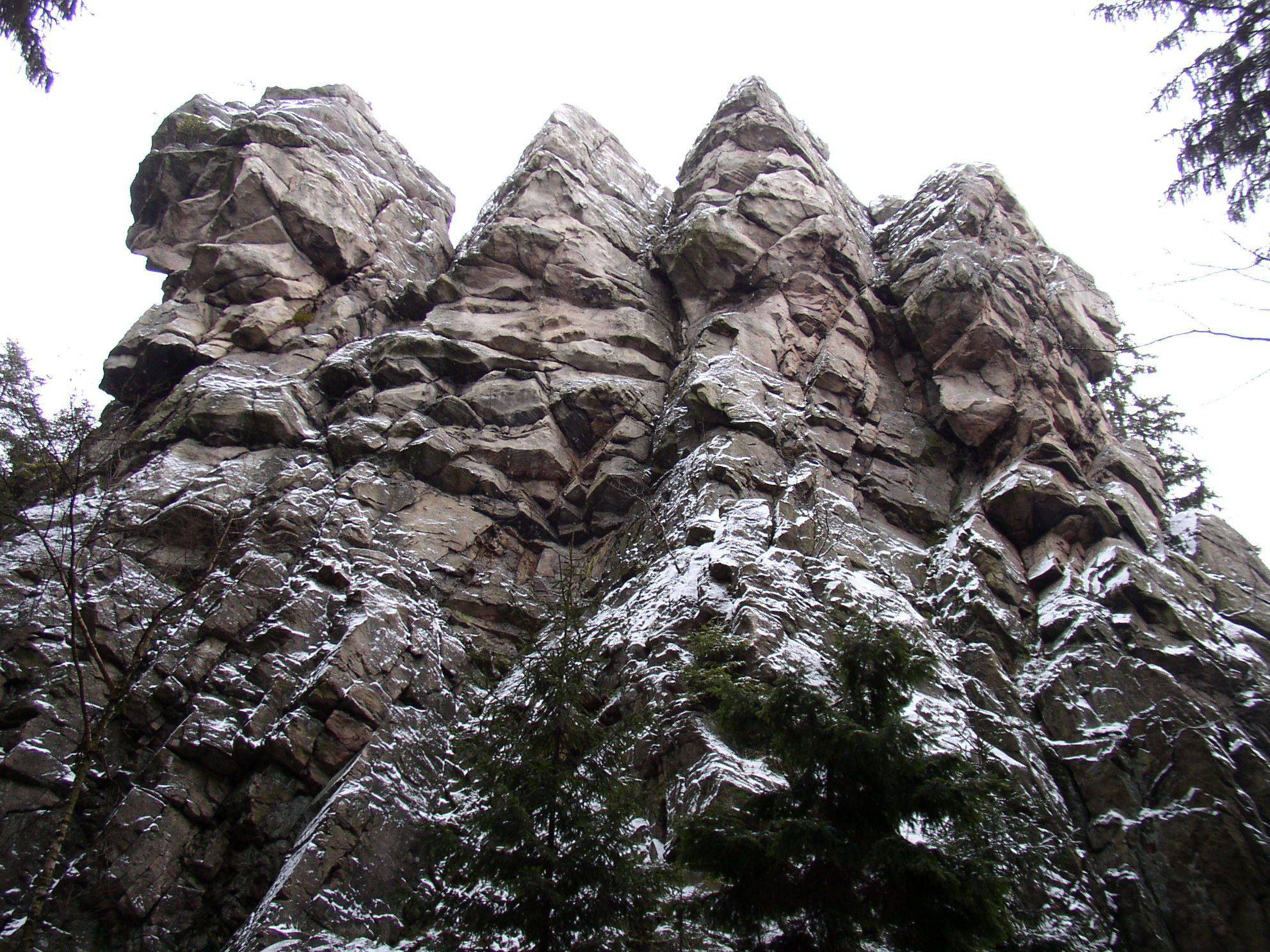 Rocks of Čtyři palice in Žďárské vrchy Mts., Czech Republic.